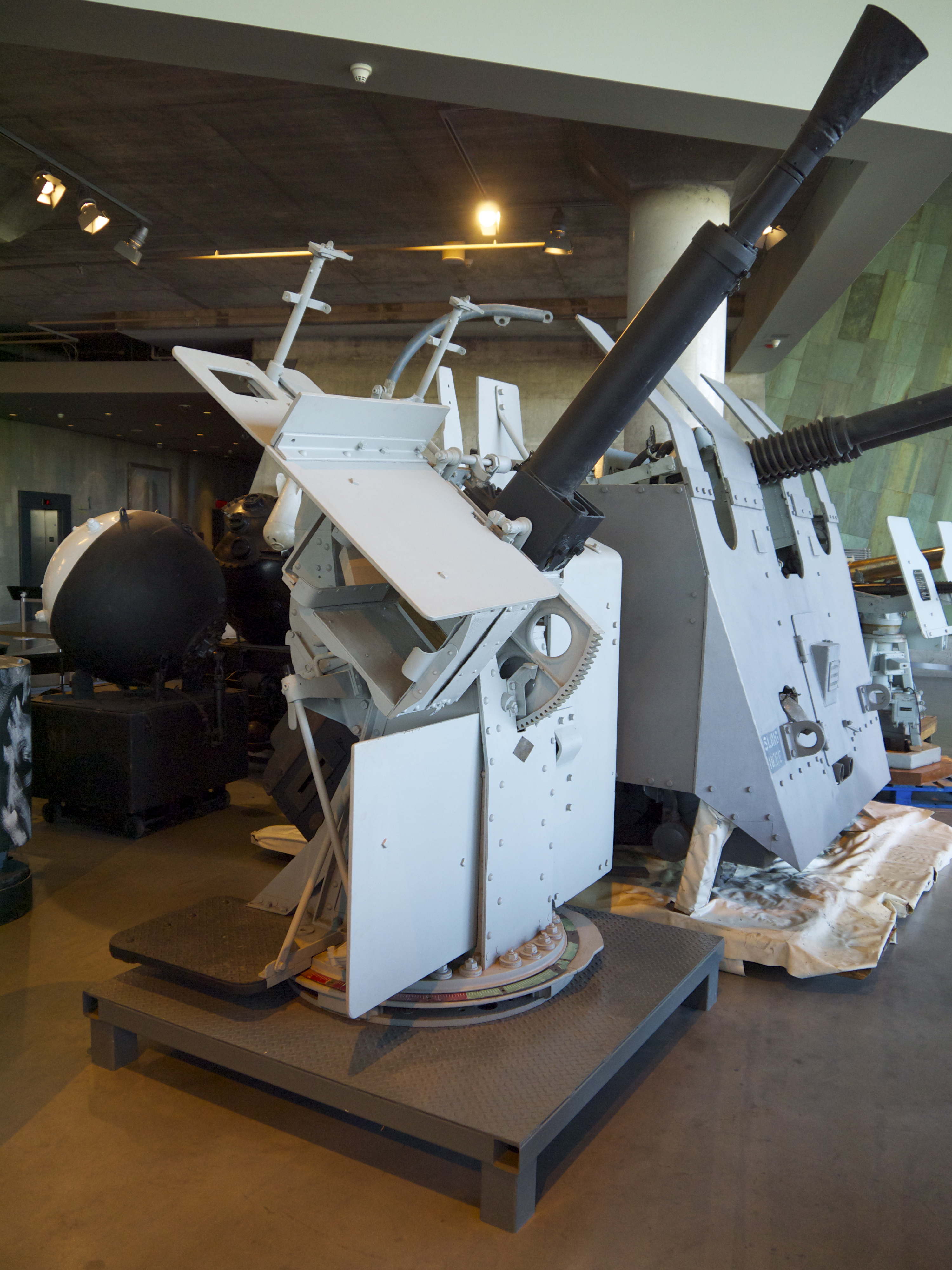 QF 2 pounder Mk. VIII single mount from Flower-class corvette HMCS Kamloops, displayed in Canadian War Museum.